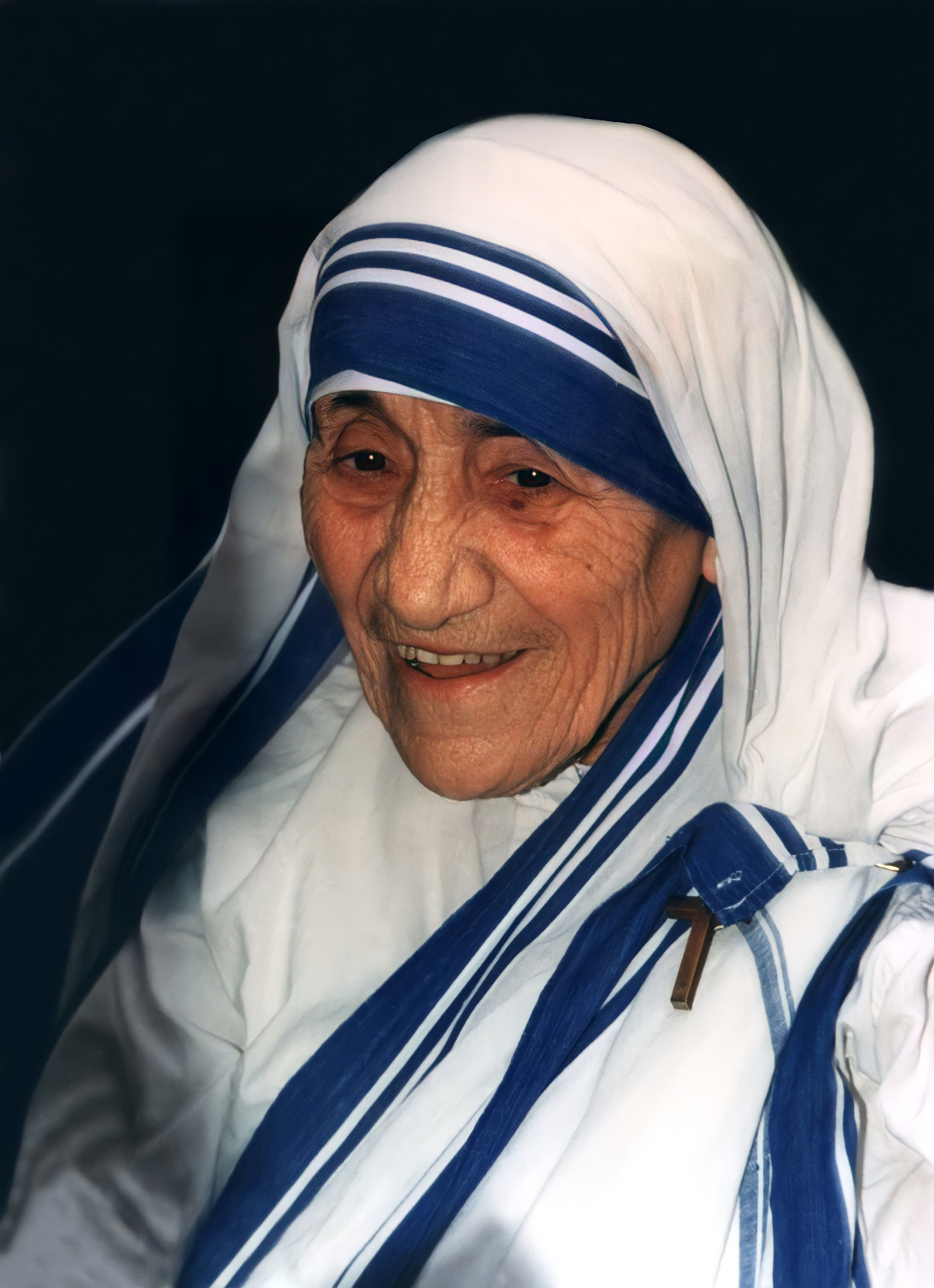 Mother Teresa Photograph taken at St Aloysius Church 19 I St NW, Washington, DC 20001 June 10, 1995 Contact me for usage of this image. © copyright JohnMathewSmith